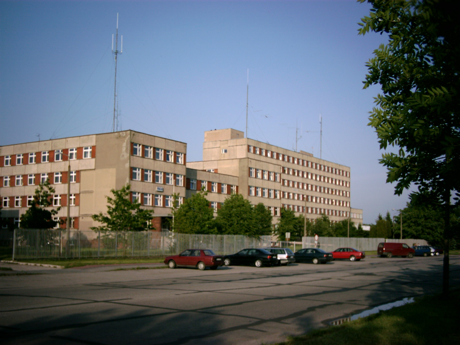 Building of police in Sieradz